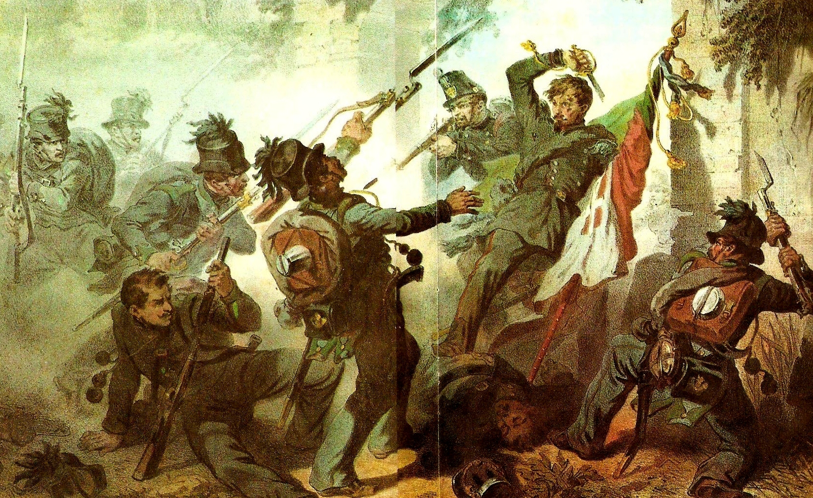 the battle of Novara (first italian war of indipendence)